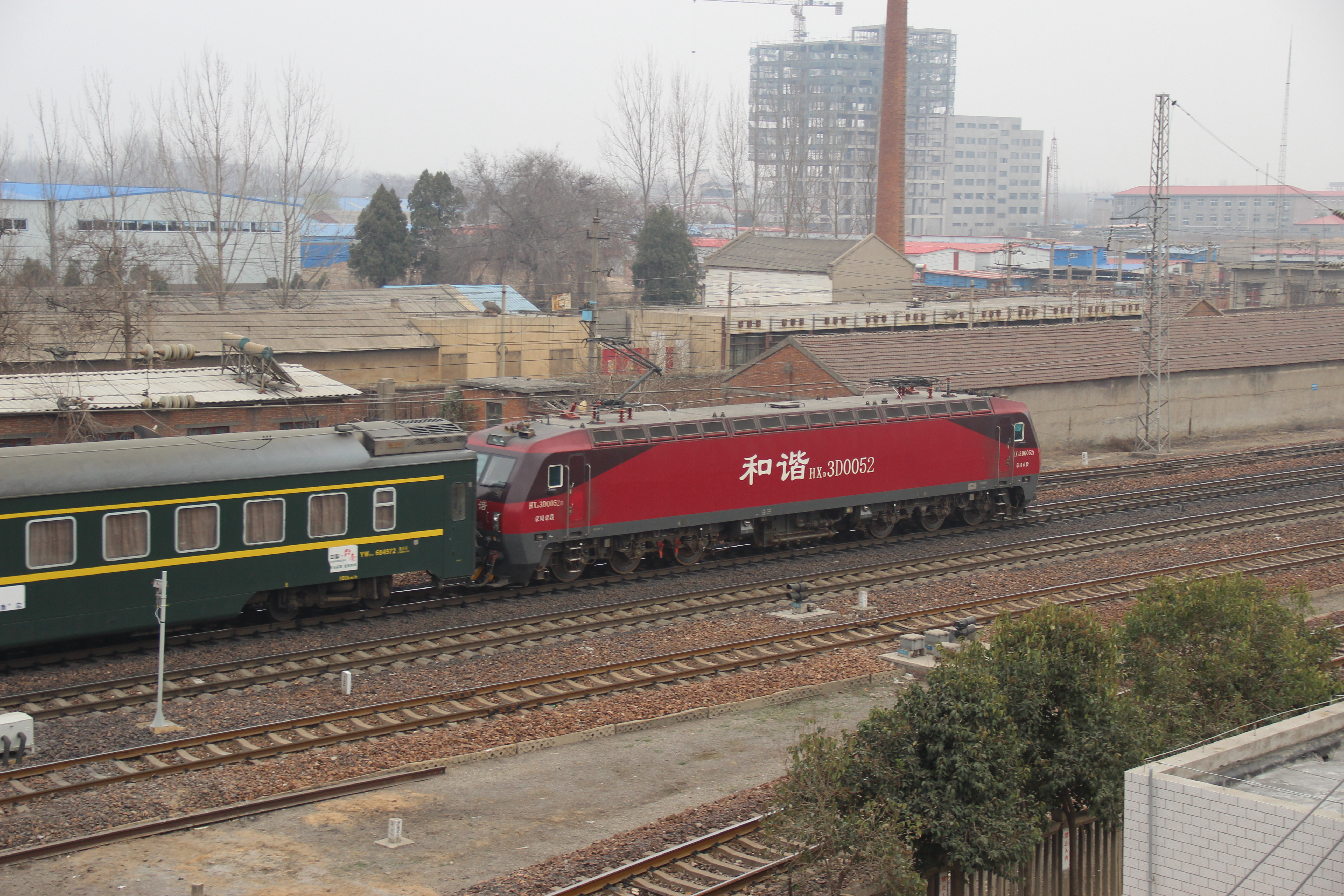 Main north-south railway line, Xinzheng, Henan, China. Complete indexed photo collection at .